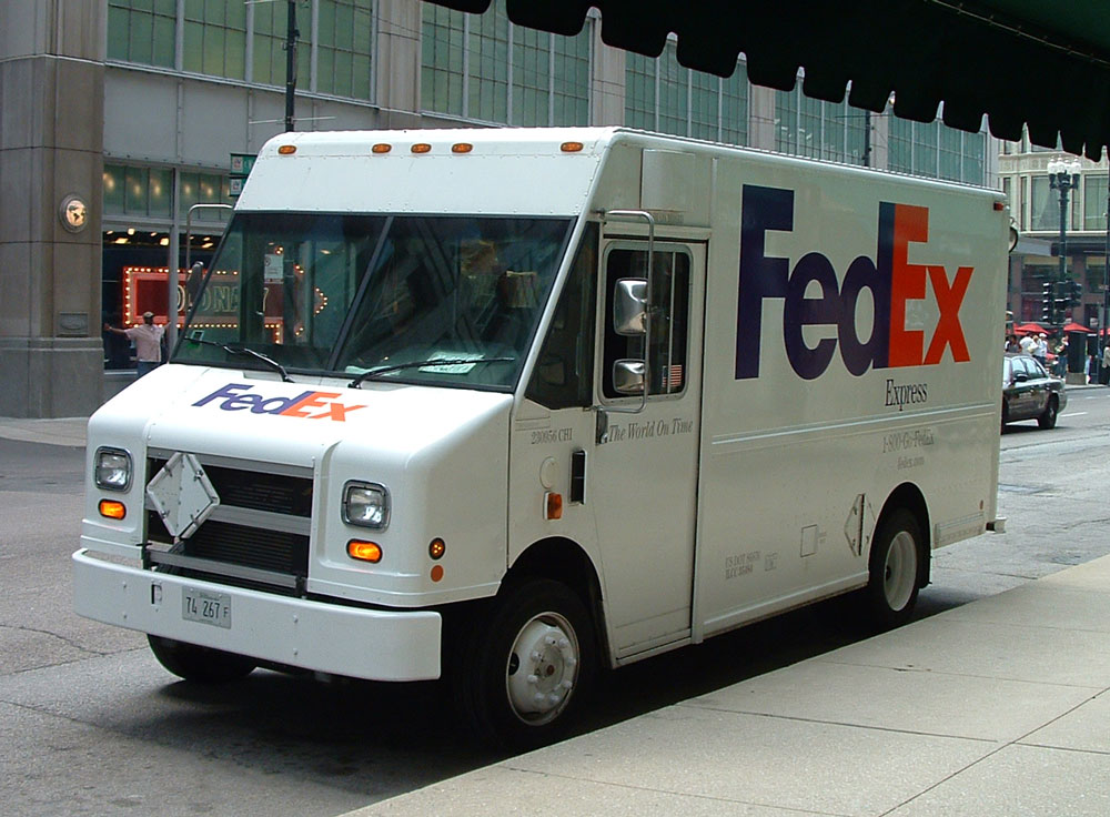 A typical FedEx delivery truck. Photograph taken in Chicago, Illinois on August 26, 2005 by Kelly Martin.